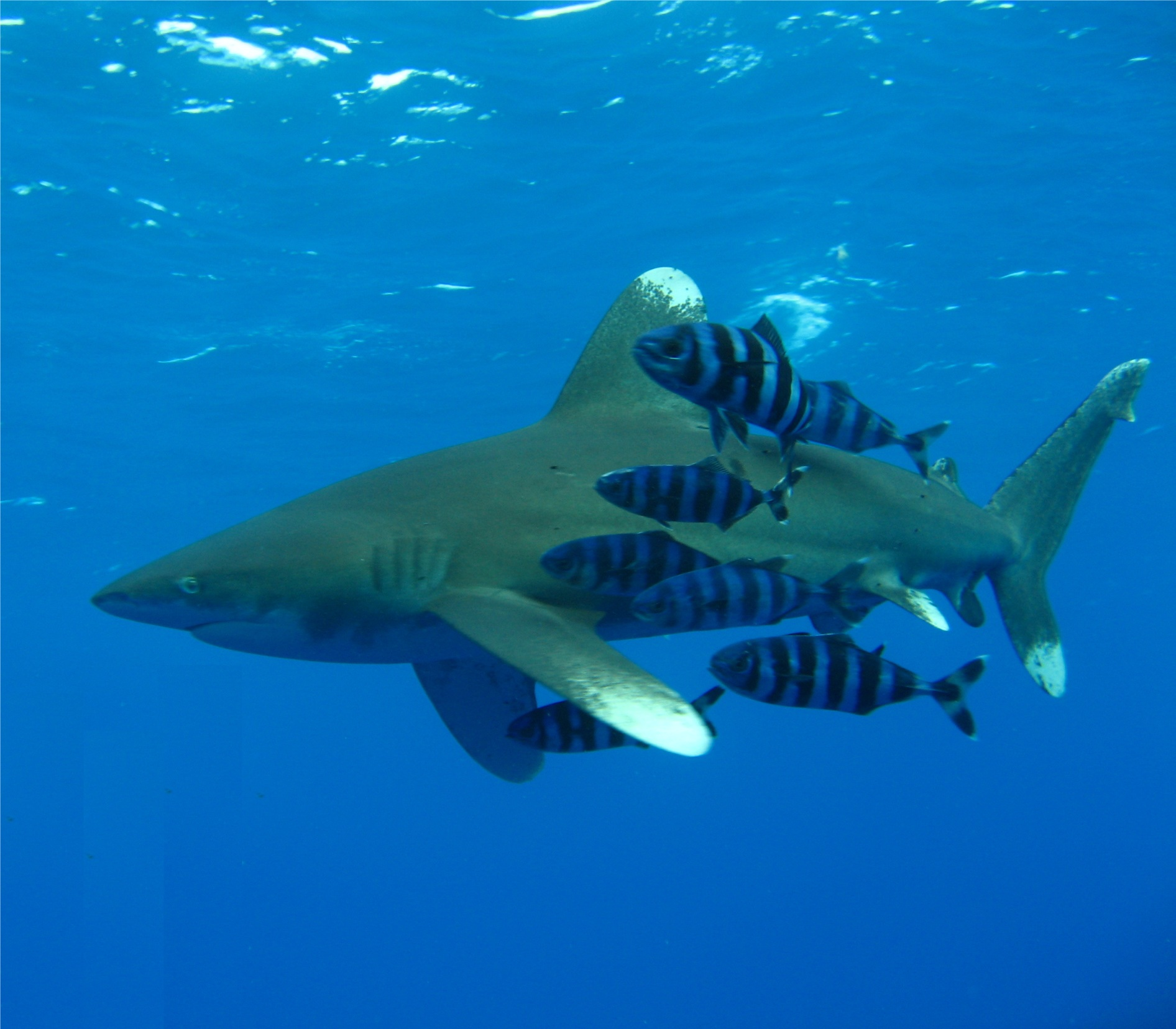 The Oceanic Whitetip Shark (Carcharhinus longimanus) with Naucrates ductor.